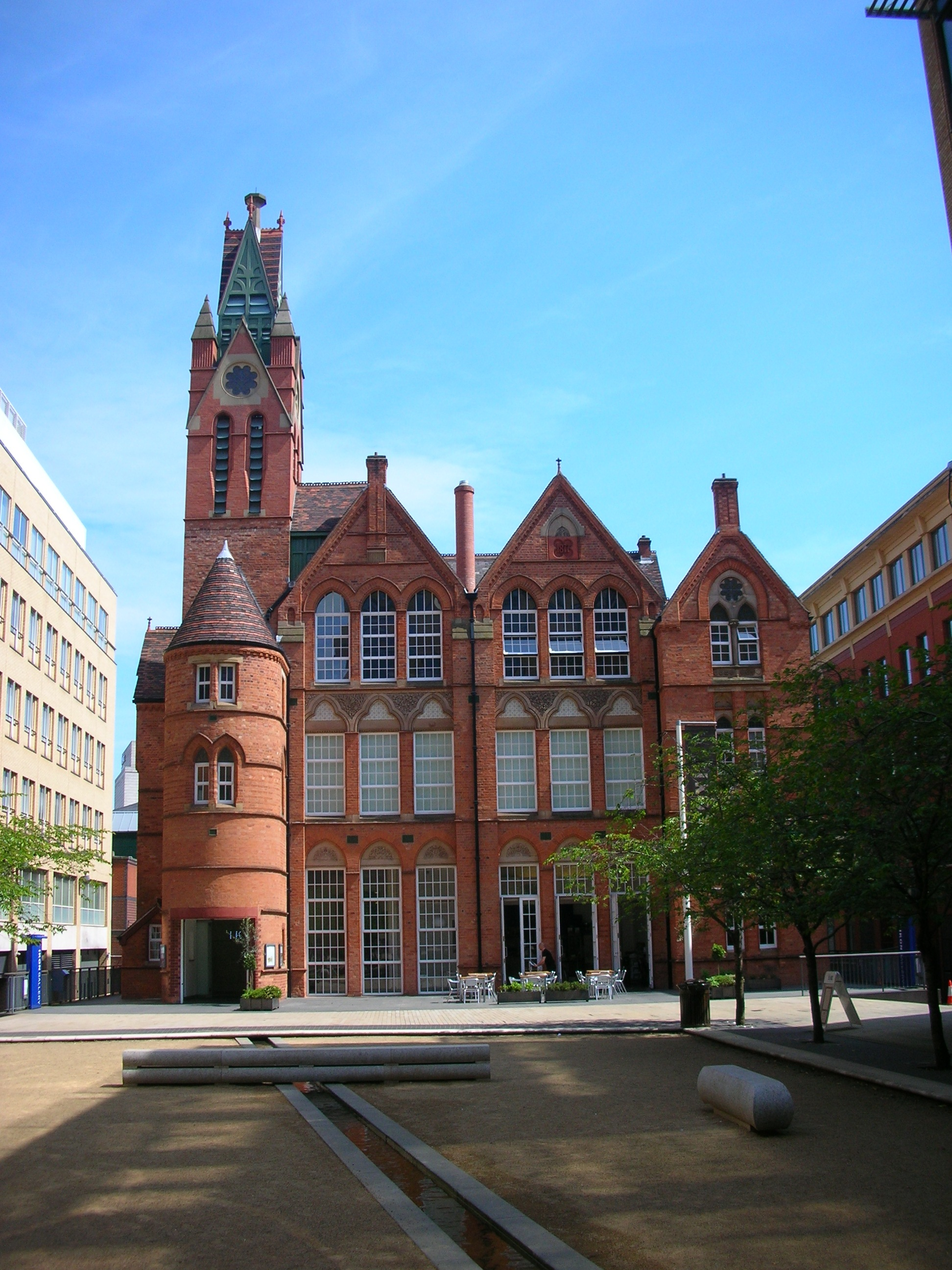 Oozells Street Board School in Birmingham, England. Now the Ikon Gallery and surrounded by Brindleyplace but once surrounded by factories and workshops. Photographed by me 16 June 2006. Oosoom